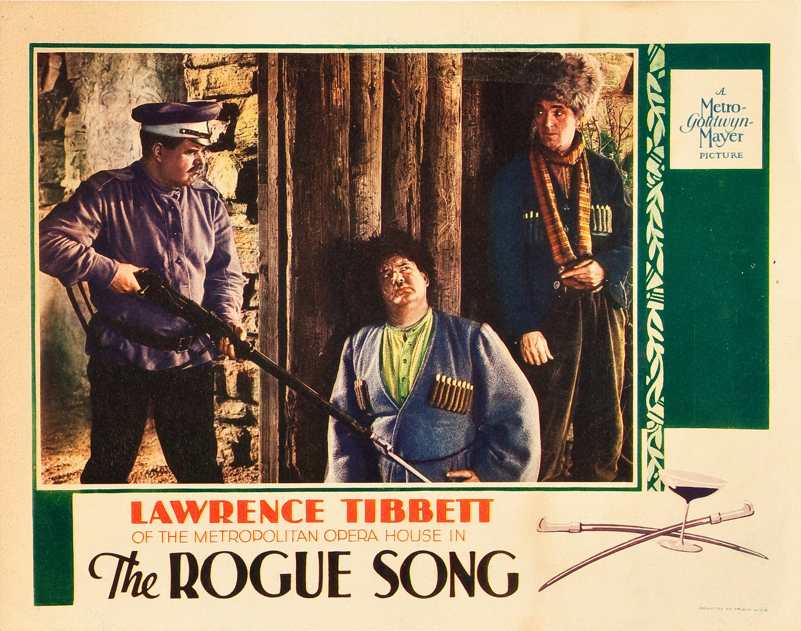 Lobby card for the 1930 film The Rogue Song